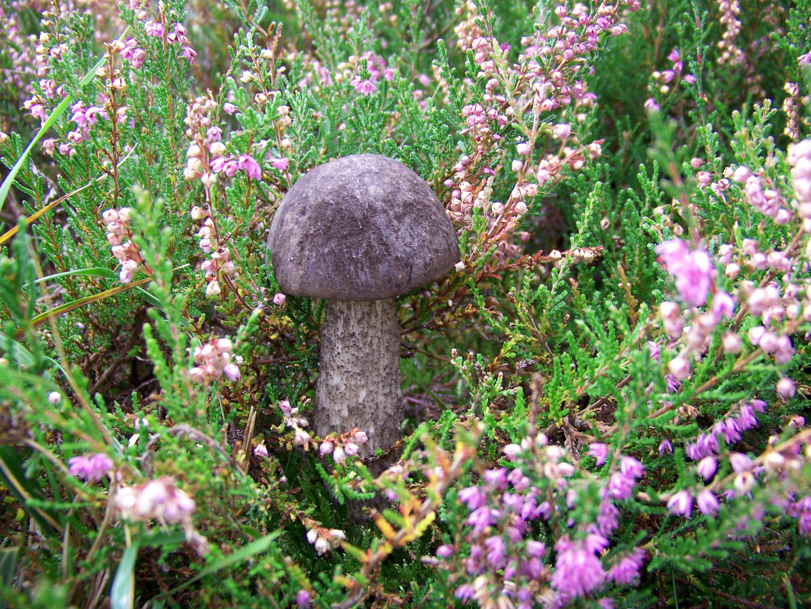 Mushroom of the species Leccinum variicolor, found in the Lüneburg Heath, Germany.